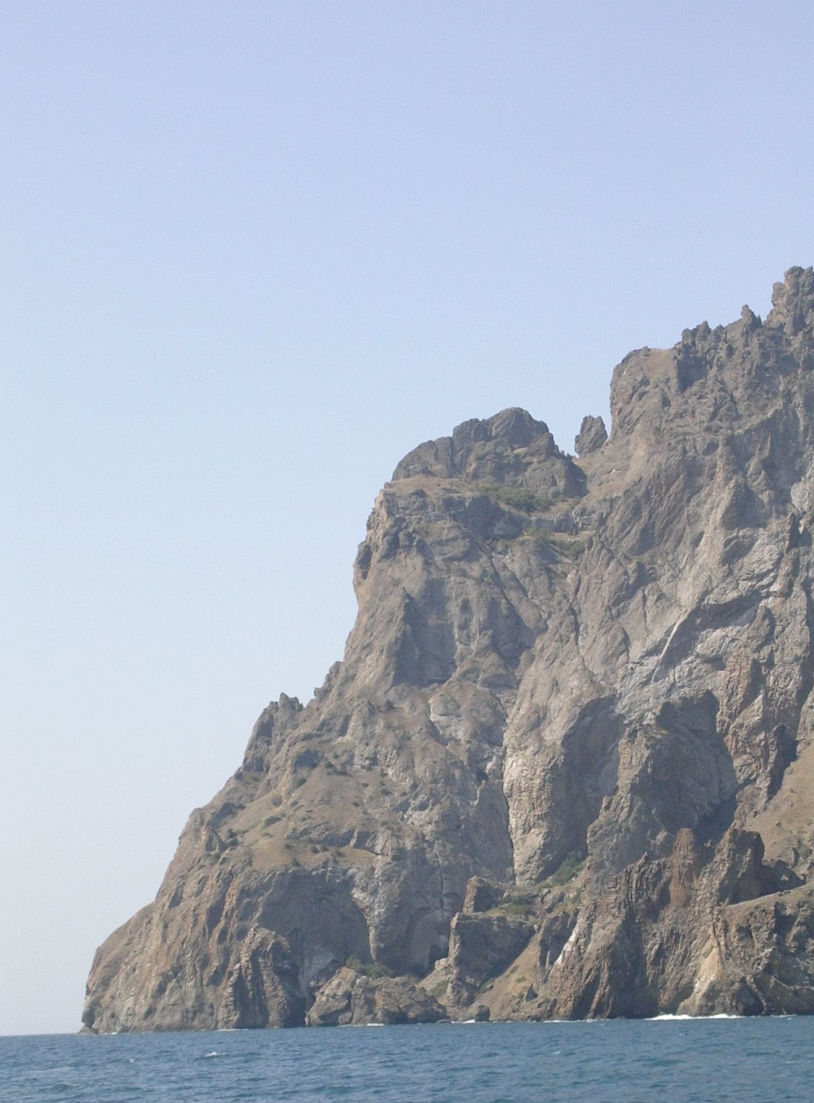 Mount Karadah near Koktebel, Crimea